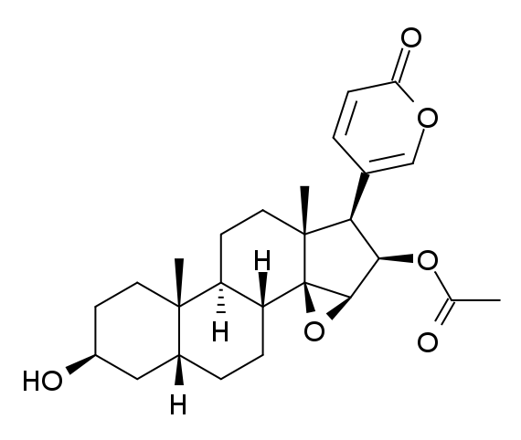 Structure of cinobufagin